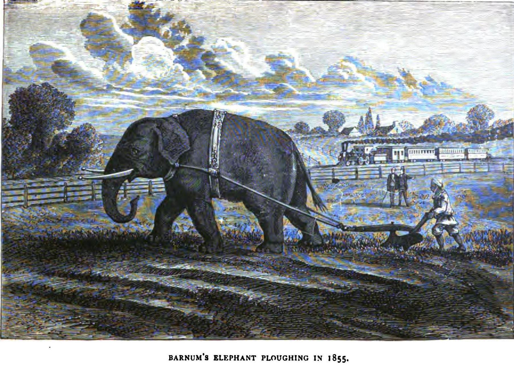 Book engraving of P.T. Barnum's elephant plowing farmland in Bridgeport in 1855, with onlookers